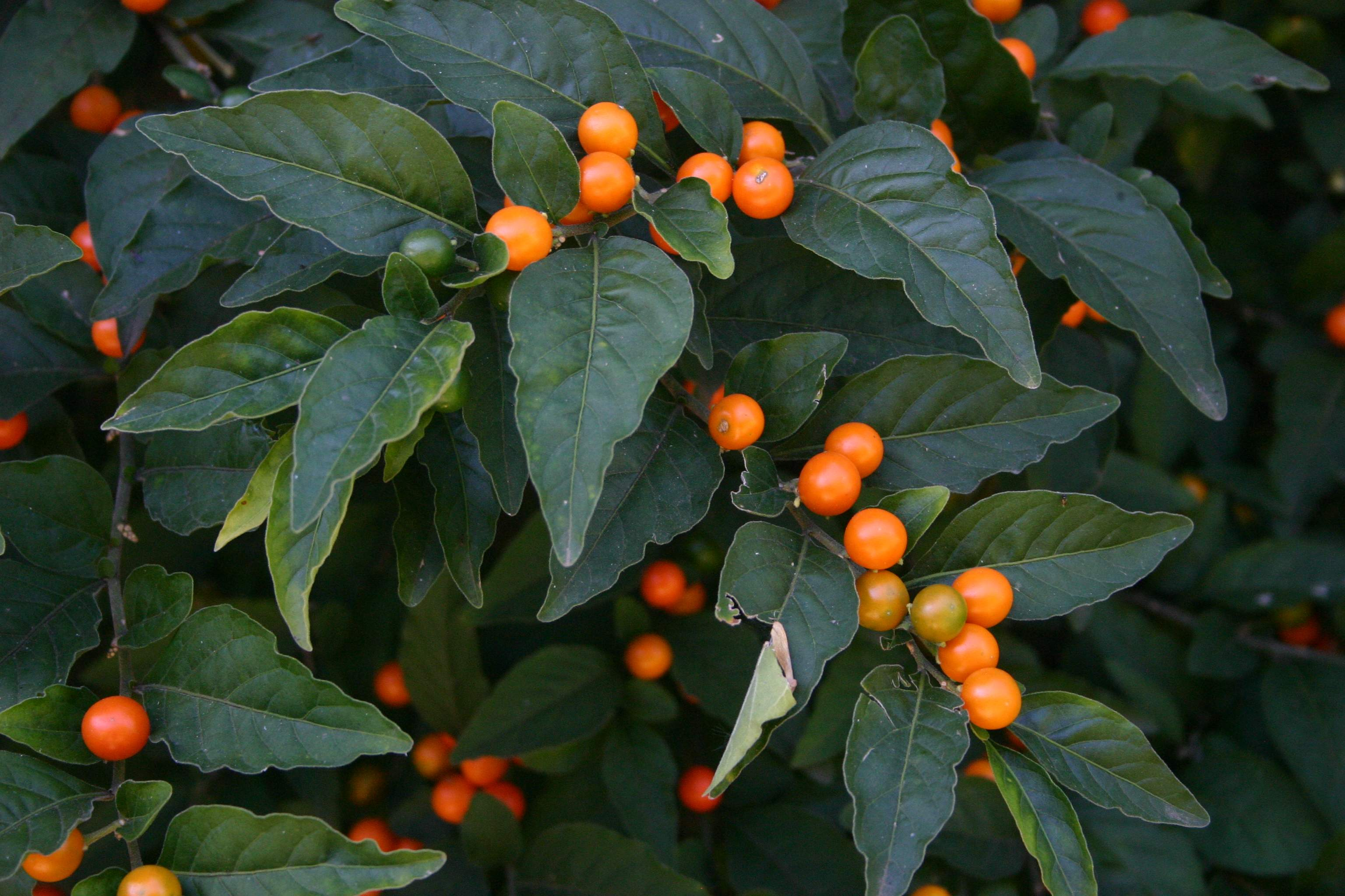 Solanum pseudocapsicum in fruit - Honeydew, Gauteng